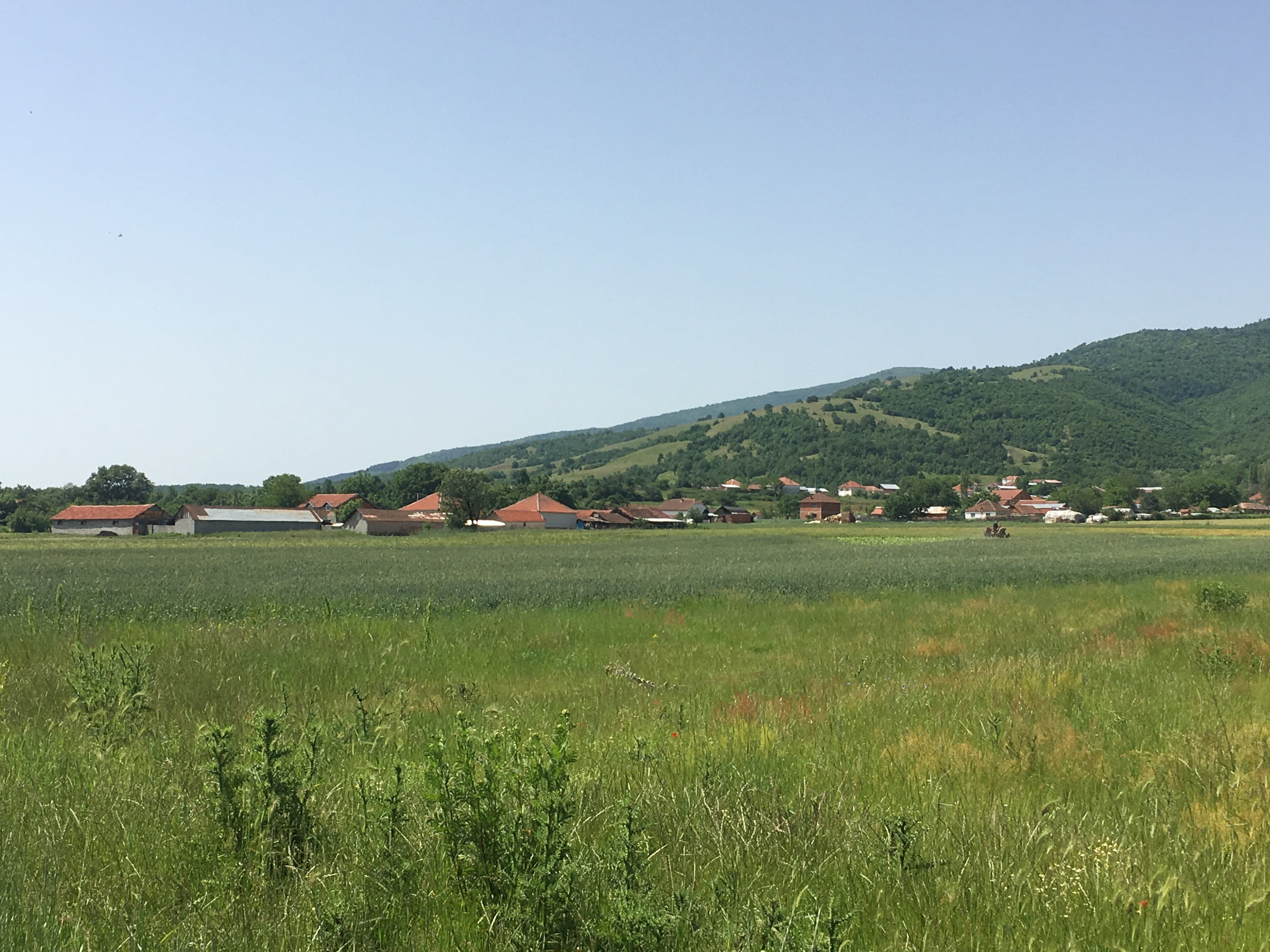 A view of the village of Sveto Todori